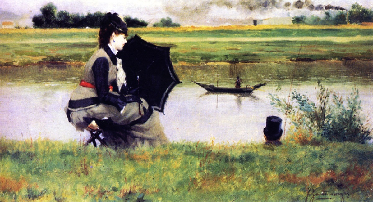 Fishing on the Seine by Federico Zandomeneghi - Galleria d'Arte Moderna di Palazzo Pitti (Italy). Painting - oil on canvas